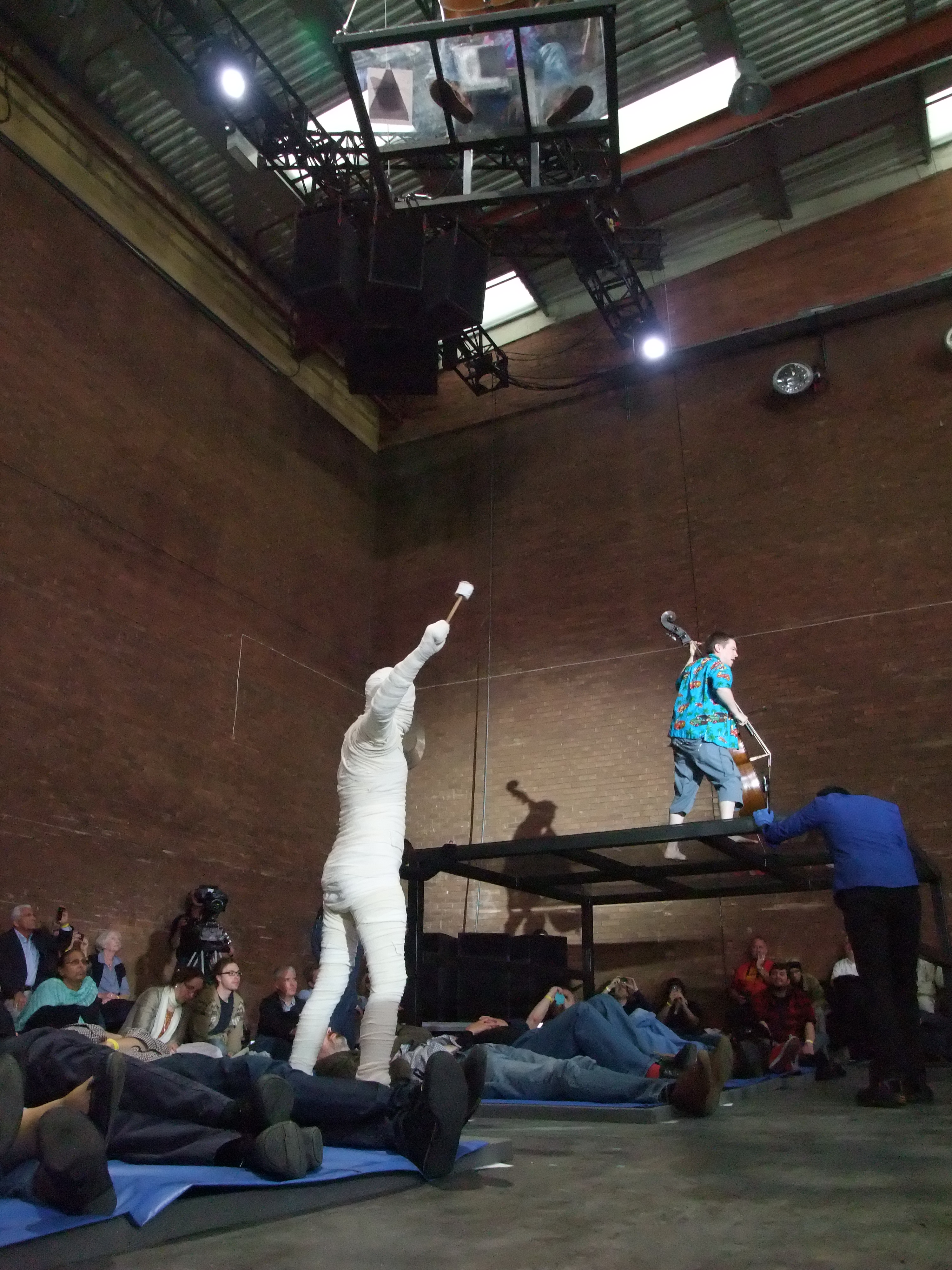 In scene 2 (Orchester-Finalisten) of Karlheinz Stockhausen's opera Mittwoch aus Licht, a mummy (David Waring) mysteriously appears and, with a stroke on a Chinese gong, releases the bassist (Jeremy Watt) from his obsession. Birmingham Opera production, Argyle Works, Digbeth, Birmingham, 23 August 2012. Photograph by Jerome Kohl.